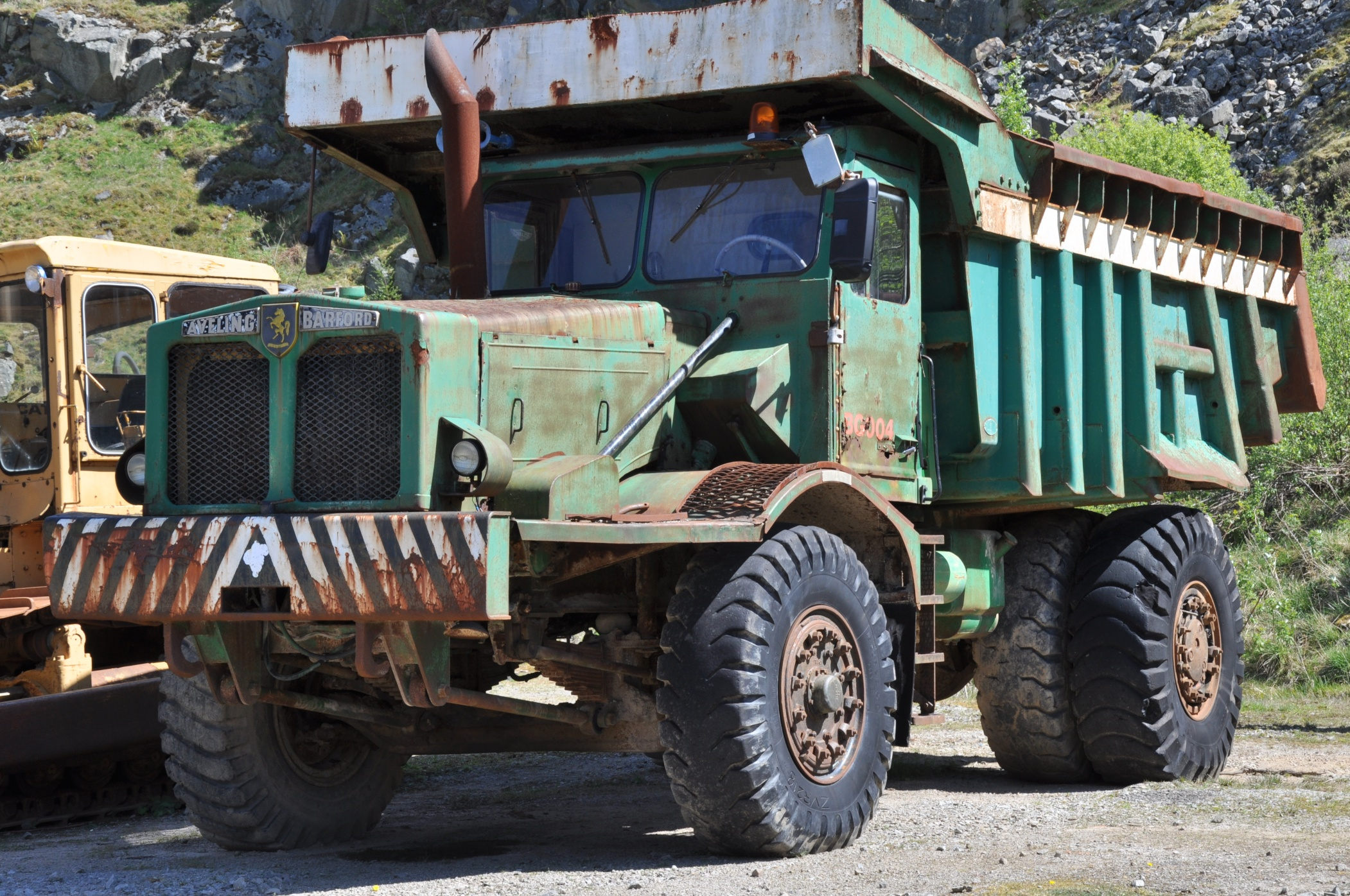 Aveling Barford dump truck at Threlkeld Quarry.